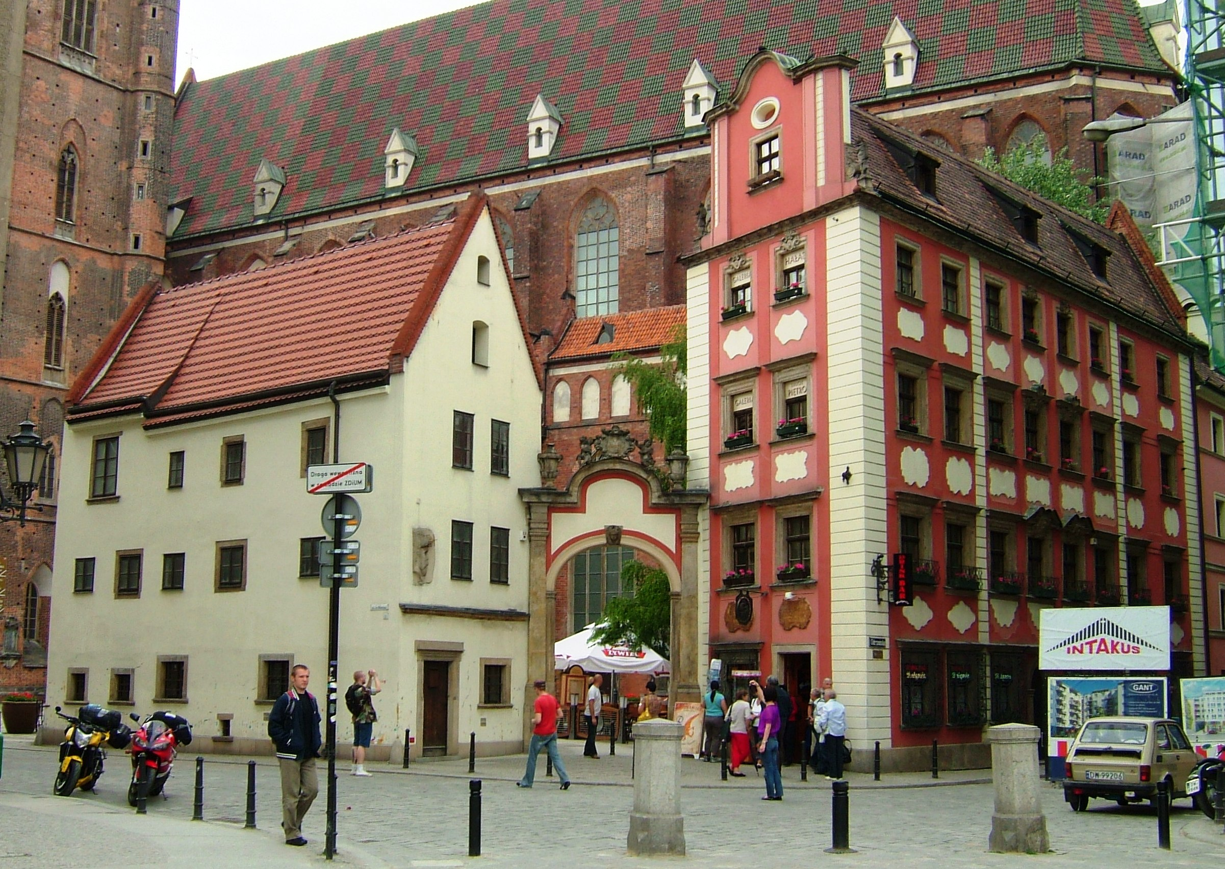 Two gothic tenements in Wroclaw "Jas and Malgosia" (Poland).